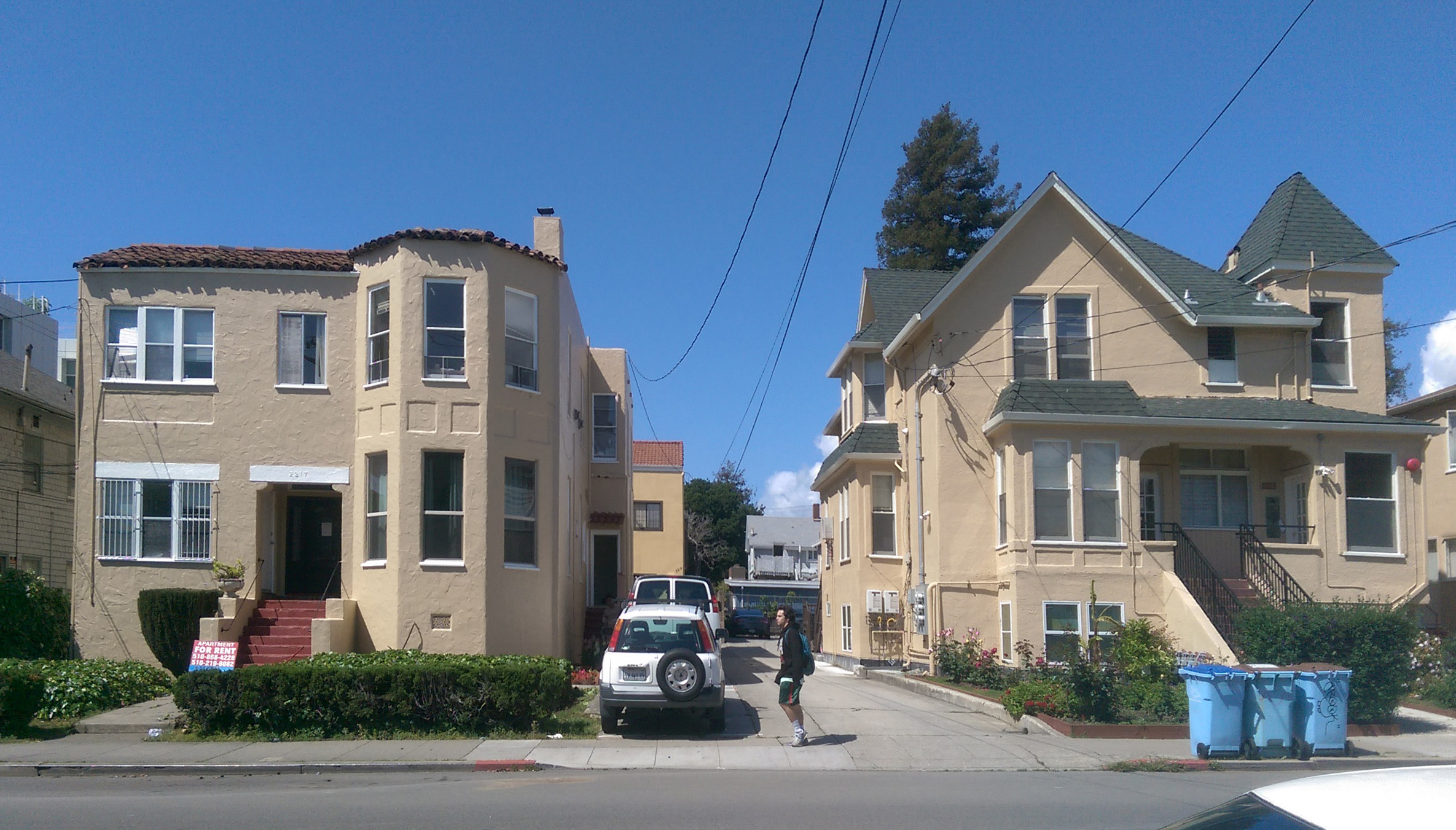 Berkeley, California - Southside - Apartment buildings at 2217 and 2221 Dwight Way